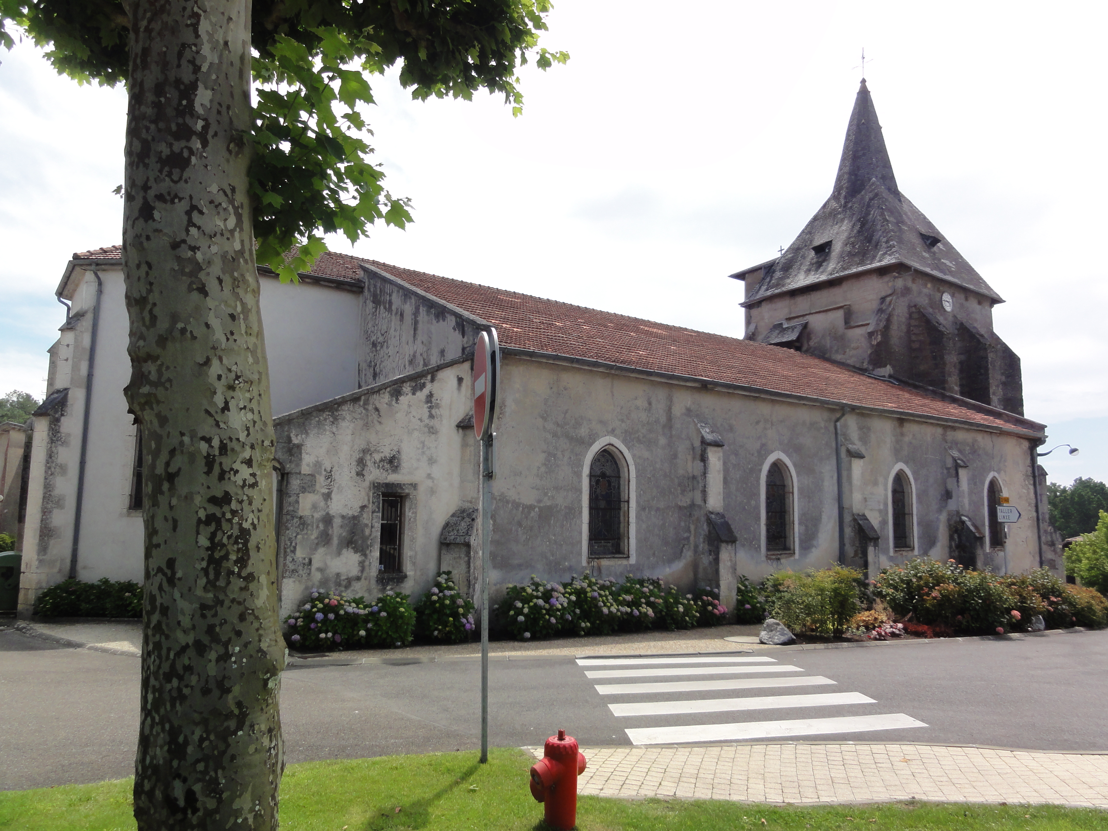 Église Saint-Hilaire de Lesperon, extérieur